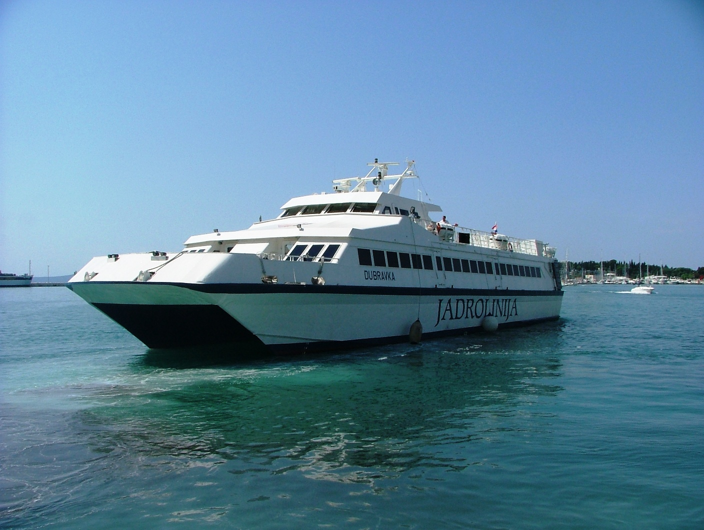 HydroJet Catamarn Dubravka in the Split harbour IMO Number: 9034200 MMSI Number: 238116640 Callsign: 9A7583 Length: 41.0m Beam: 11.0m